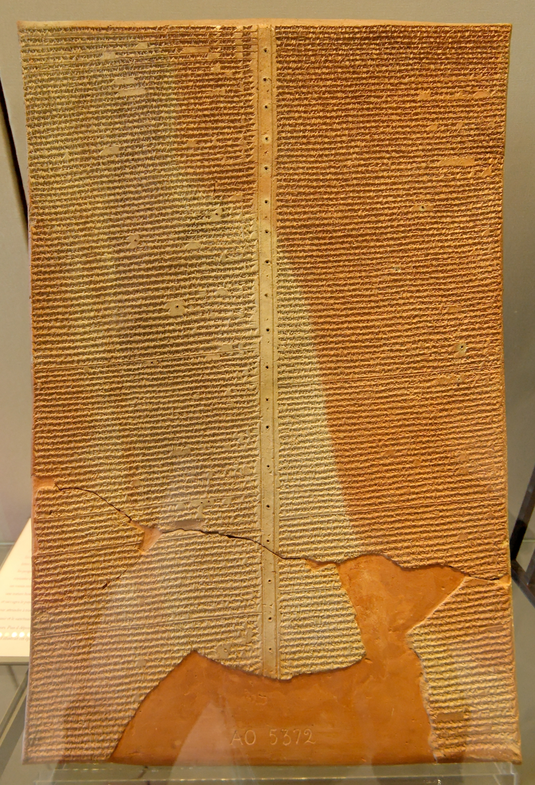 Terracotta tablet relating the 8th campaign of Sargon II, king of Assyria, against Urartu. 714 BC, found in Assur.